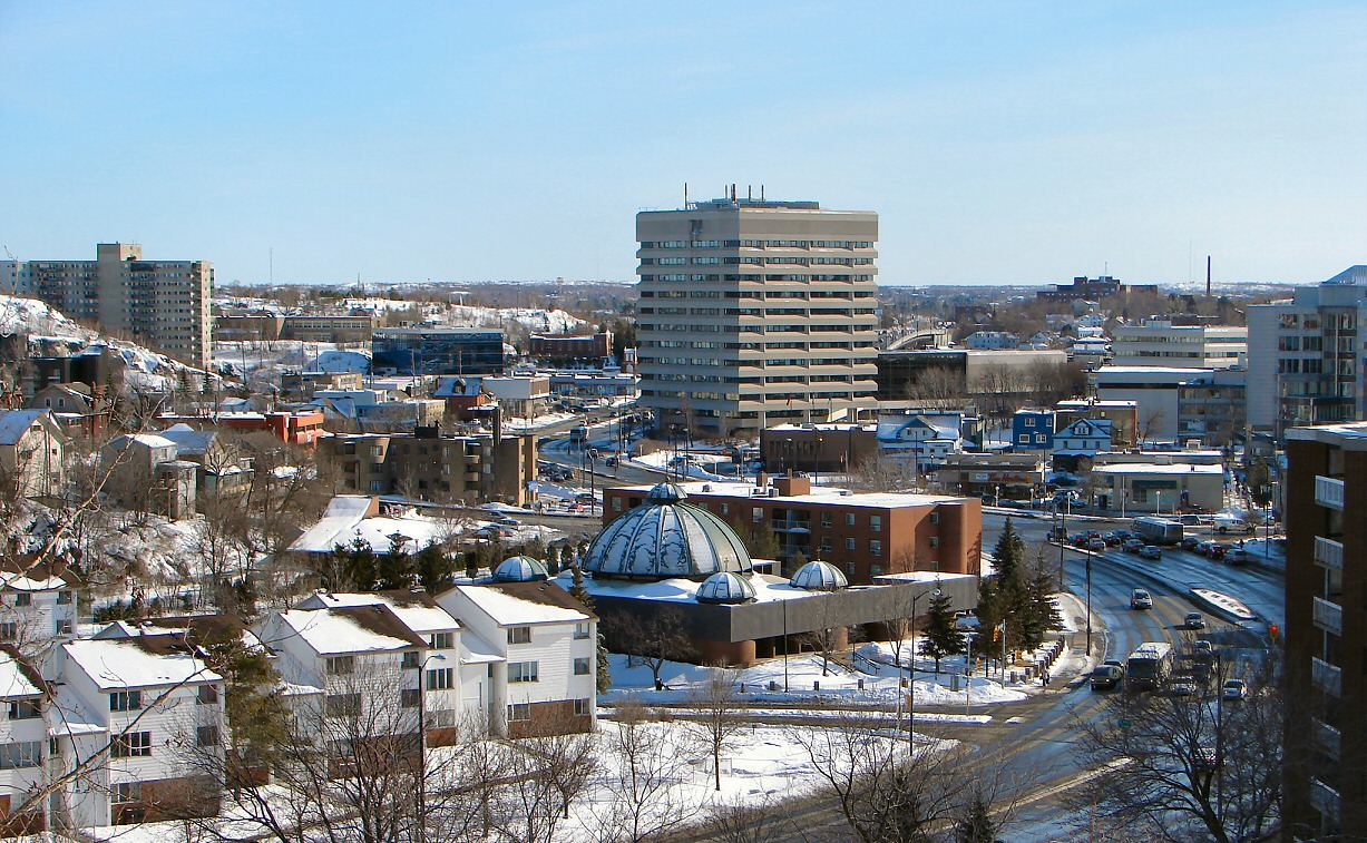 Centre of Sudbury, Ontario, Canada